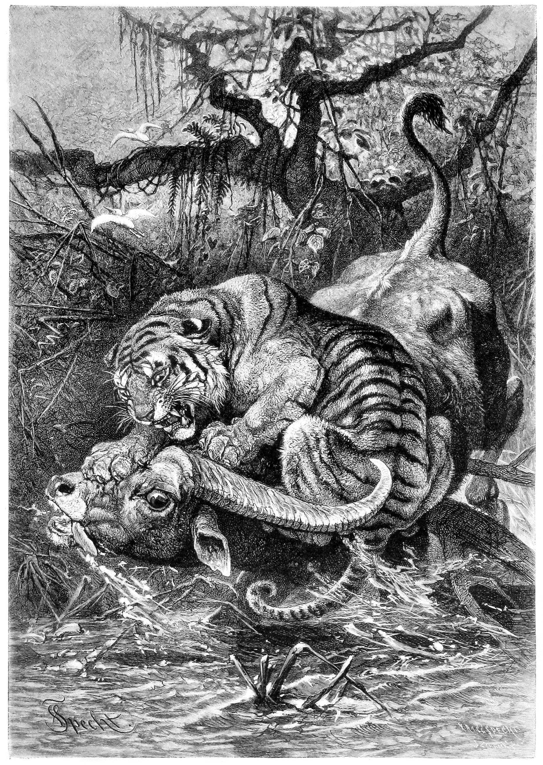 caption: "Des Tigers Beute. Originalzeichnung von F. Specht."